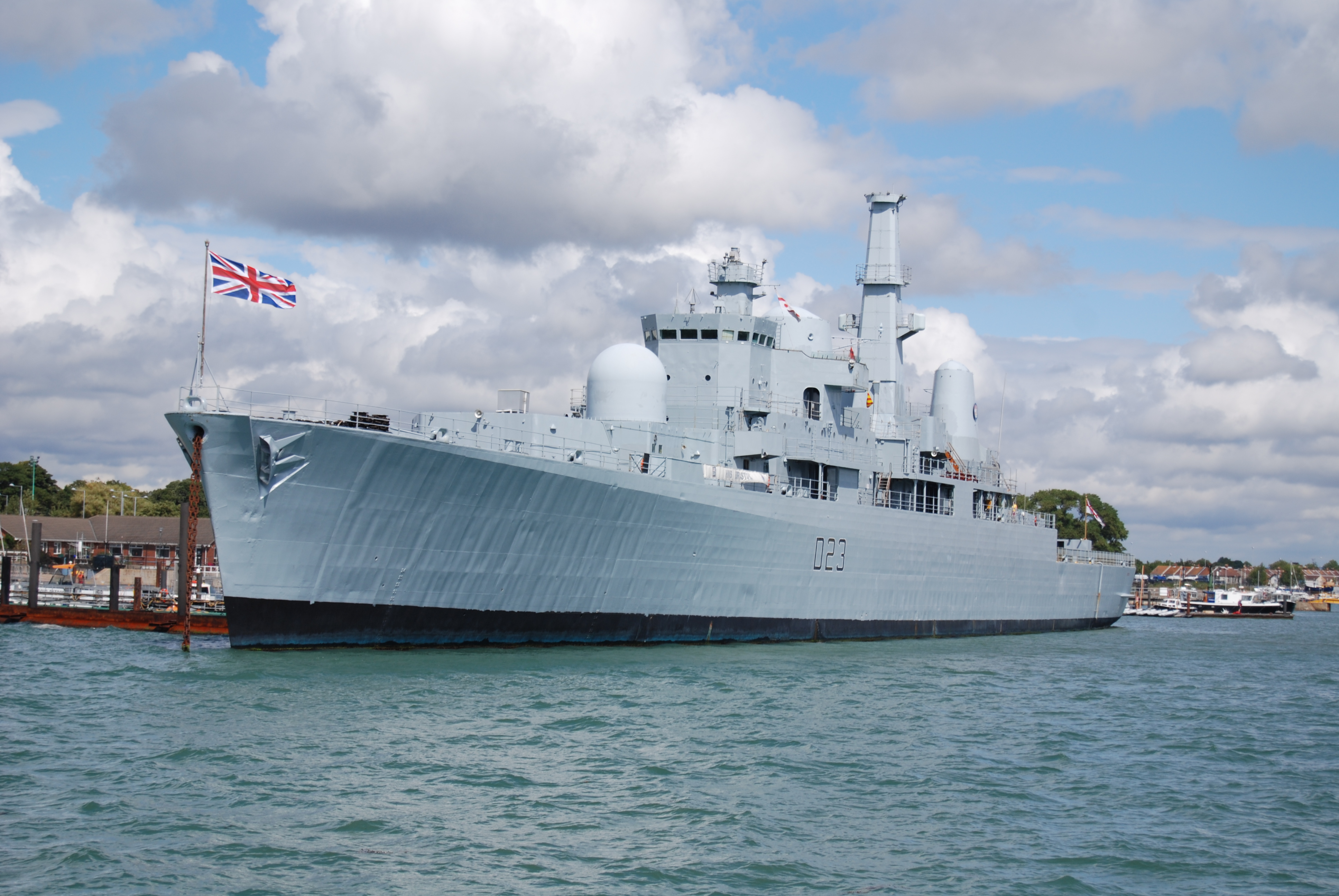 Image of HMS Bristol alongside Whale Island, HMS Excellent, in Portsmouth Dockyard. Taken from harbour cruise boat. Displayed at Panoramio